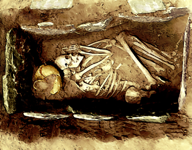 A Mississippian culture stone box burial with the body in the flexed position.